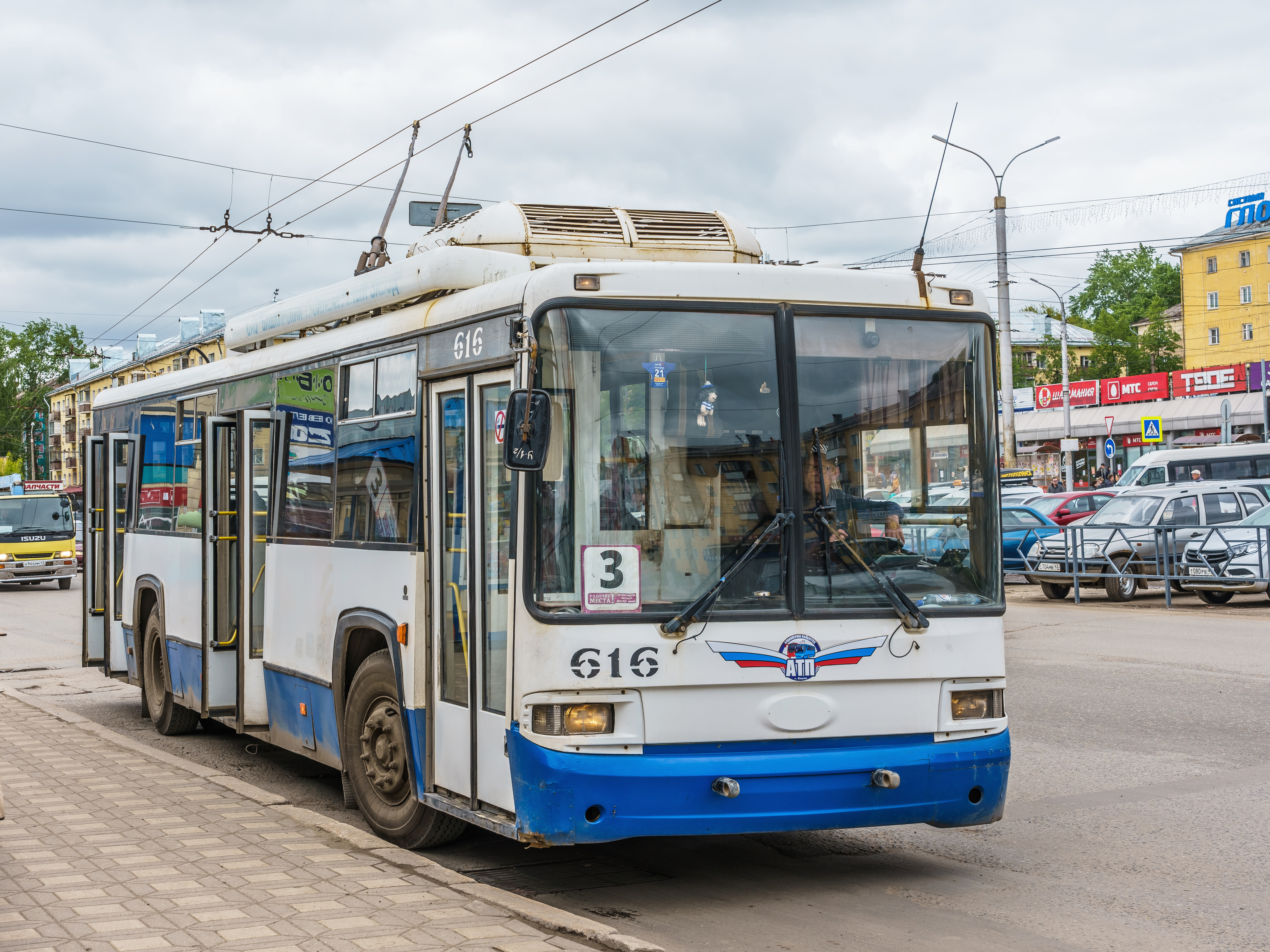 BTZ-52768 trolley in Kirov, Russia